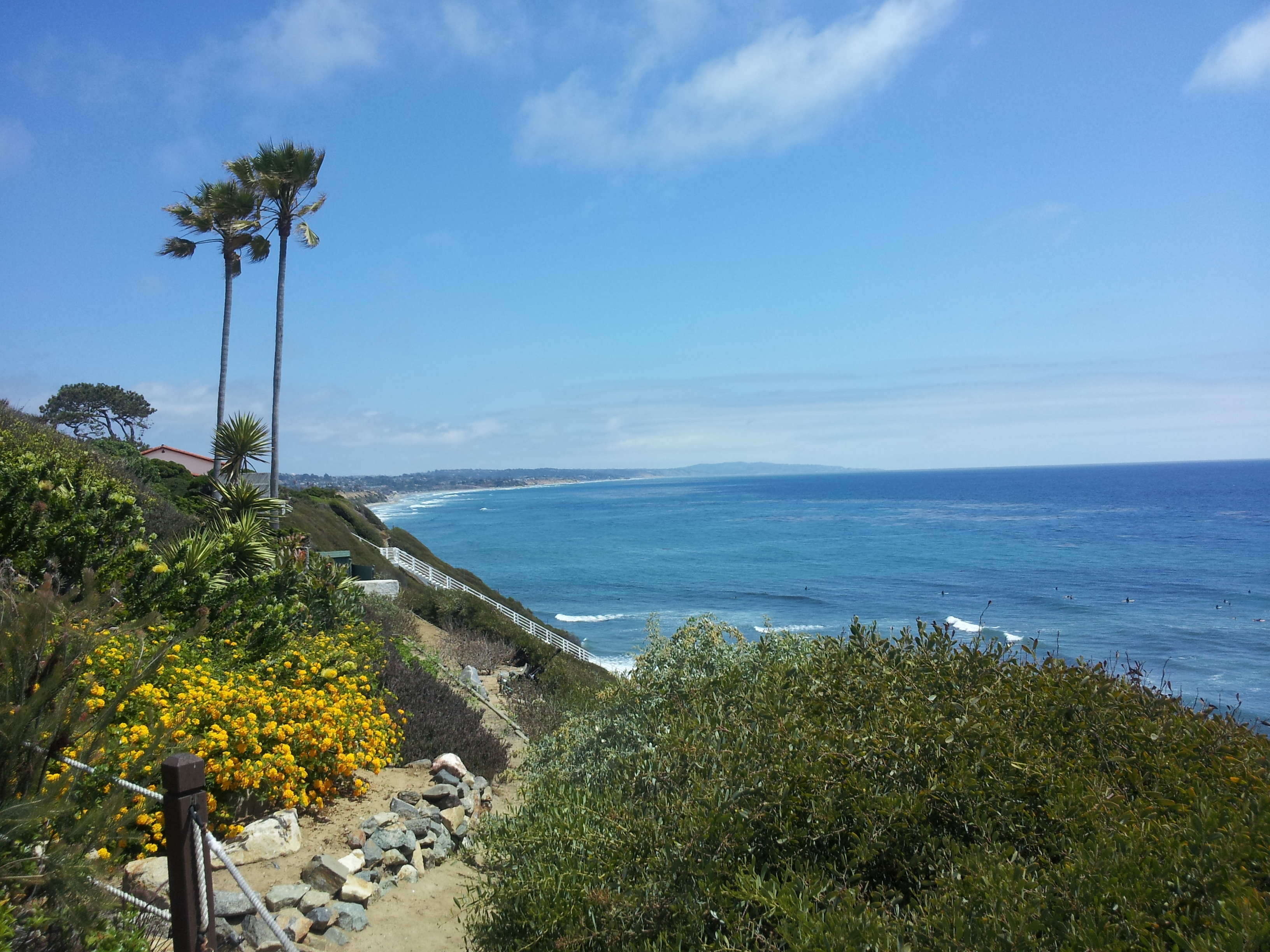 Meditation Gardens Encinitas CA Sunny day in Encinitas CA. Pacific view from the Self-Realization Gardens.